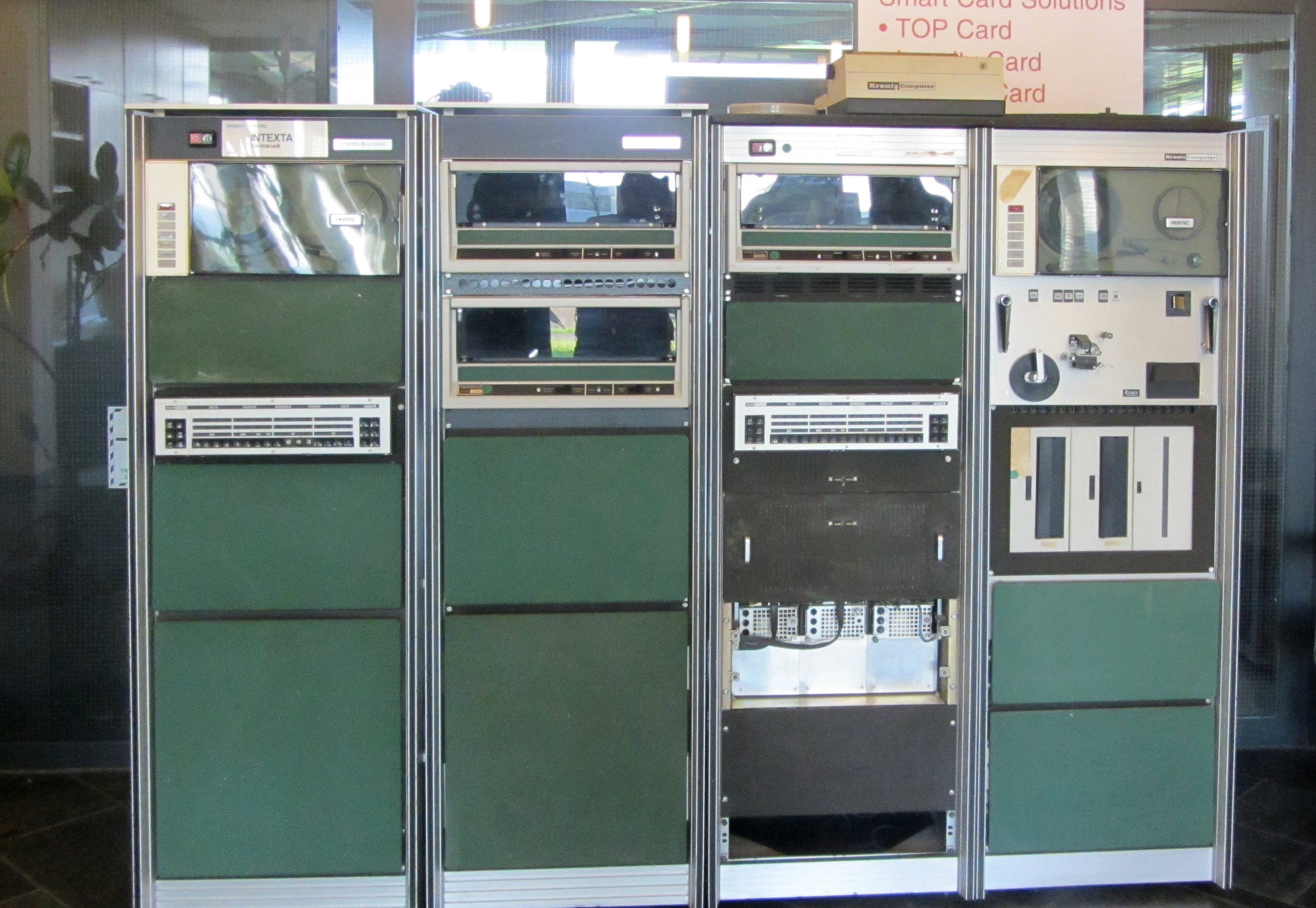 Two Mulby-3-Computers by Krantz Computer, Aachen, Germany